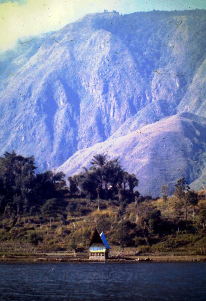 I took these files myself on a trip to Sumatra in 1979